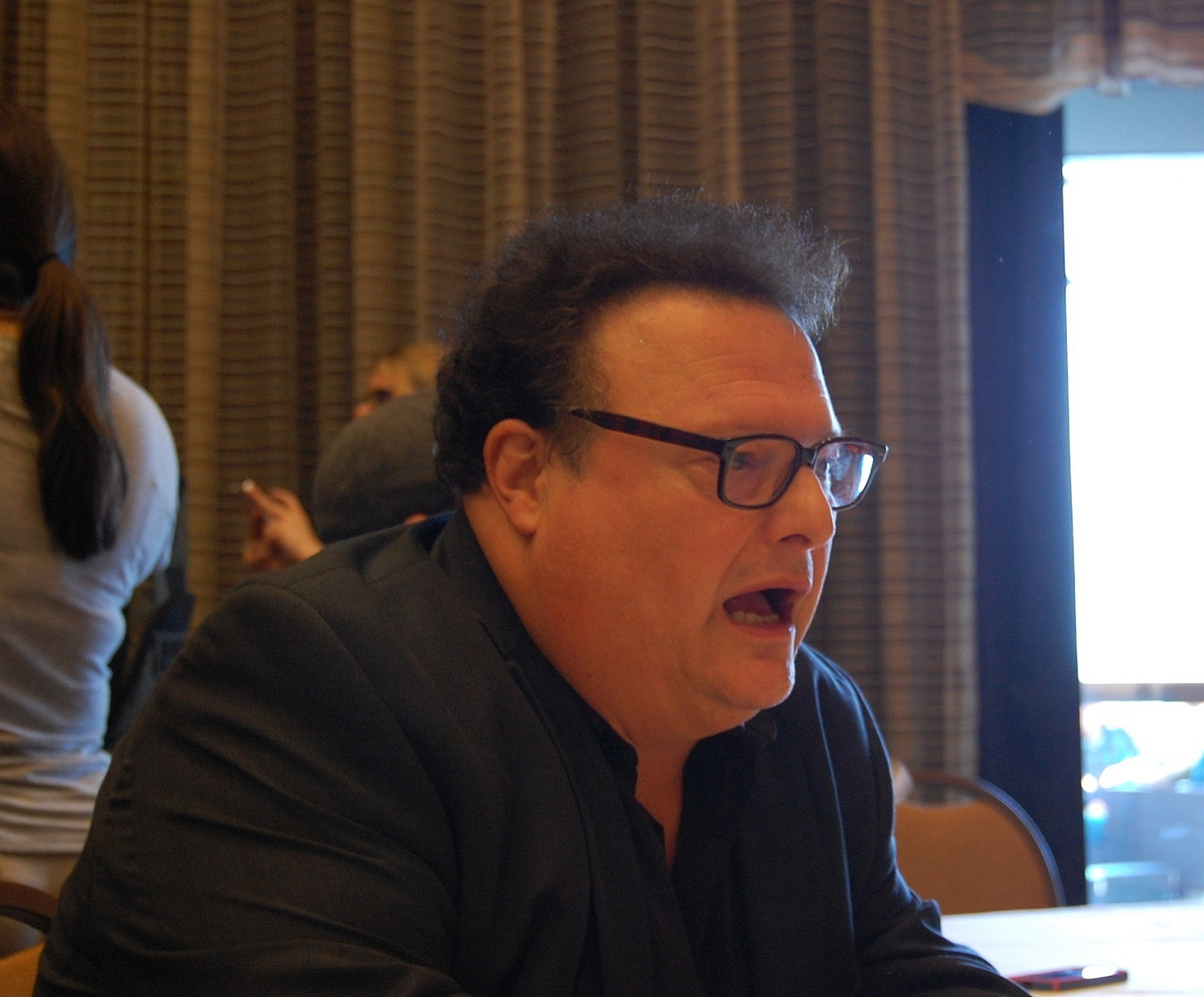 Wayne Knight at SDCC 2013